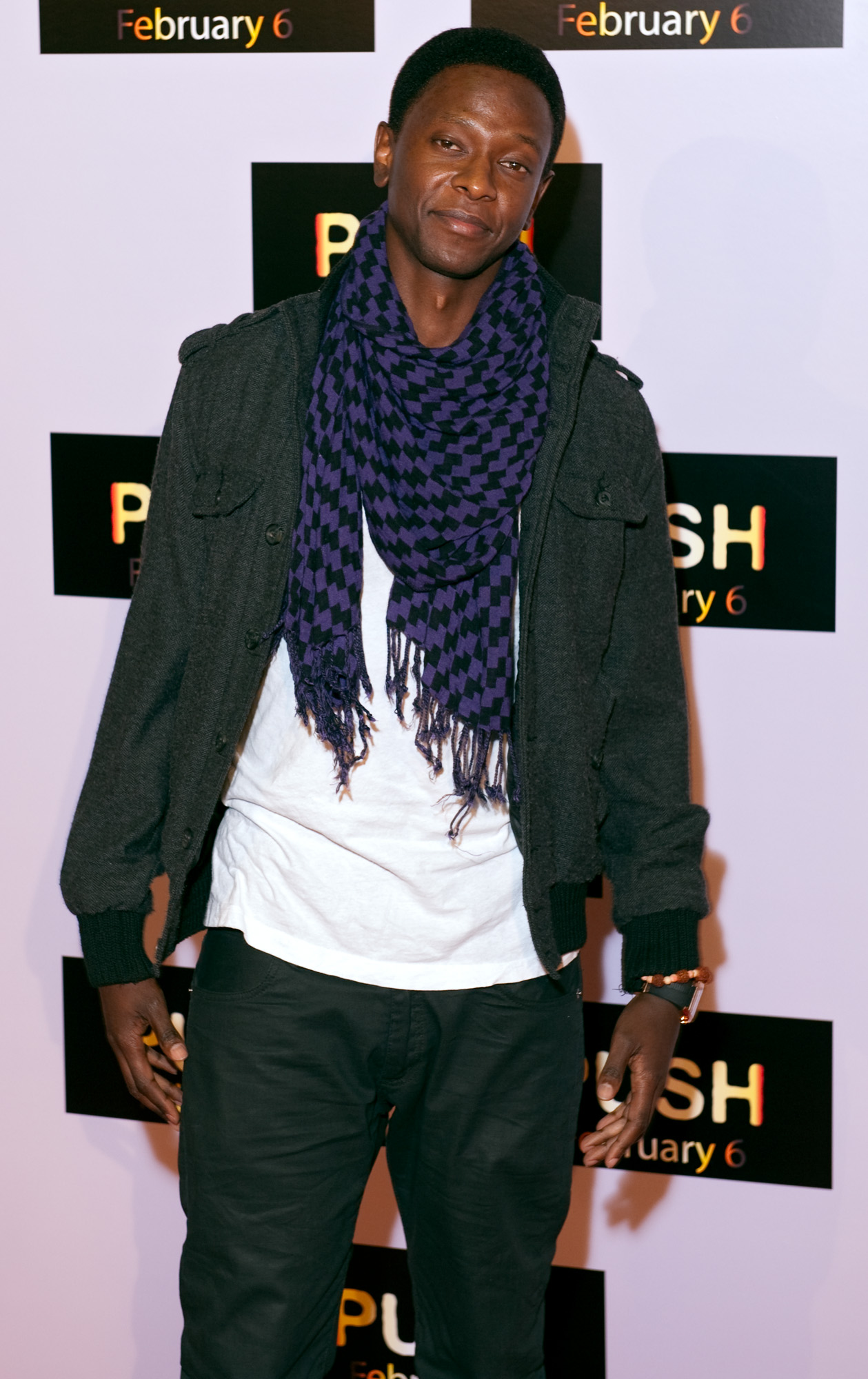 LOS ANGELES - JANUARY 29, 2009: Actor Edi Gathegi arriving at the premiere of "Push", Mann Theater, Westwood.